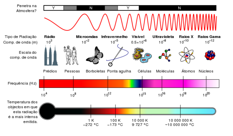 Eletromagnetic spectrum